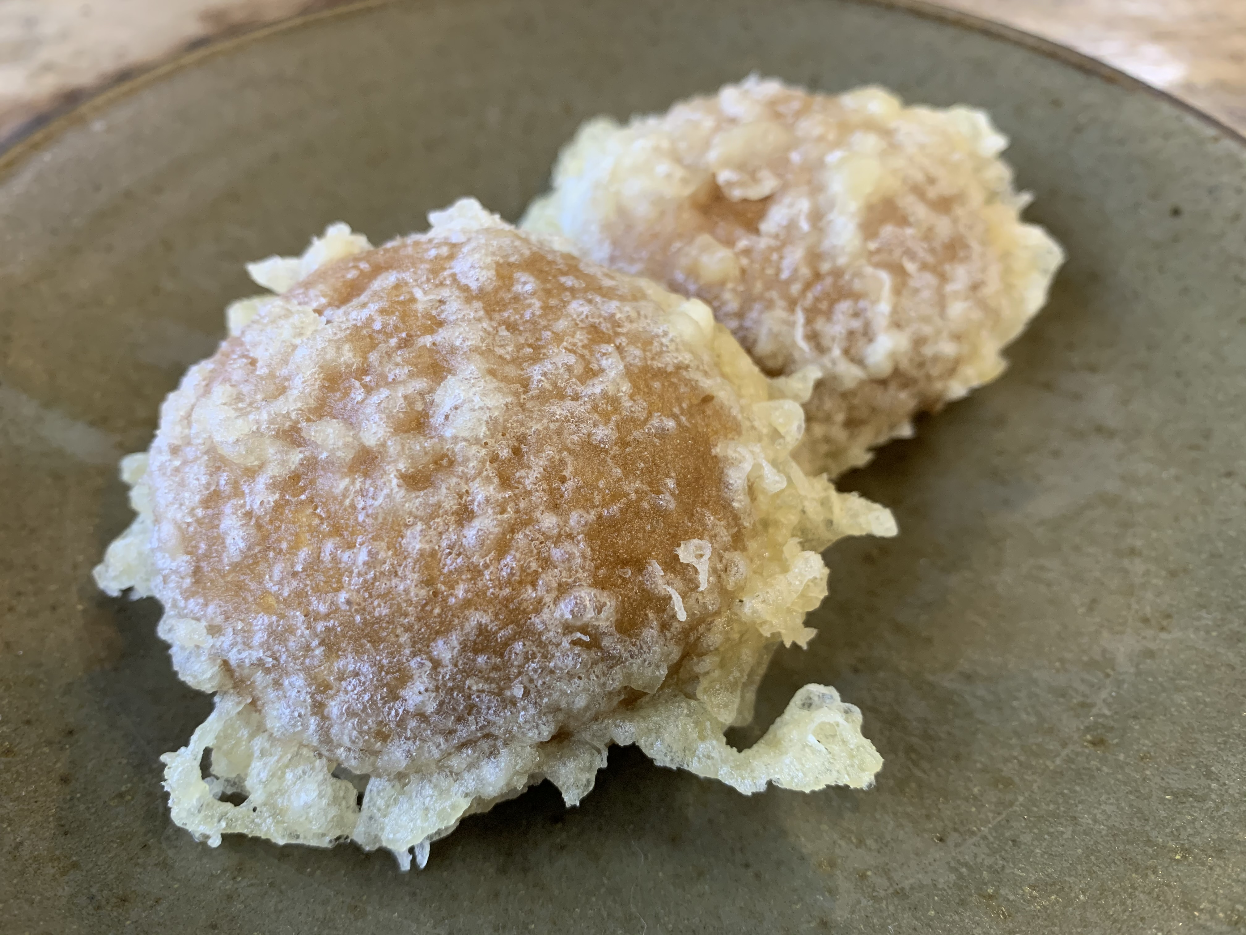 Tempura Manju, Senbon-soba, Kowashimizu, Aizu-wakamatsu city, Fukushima, Japan. Took photo in April 2020.